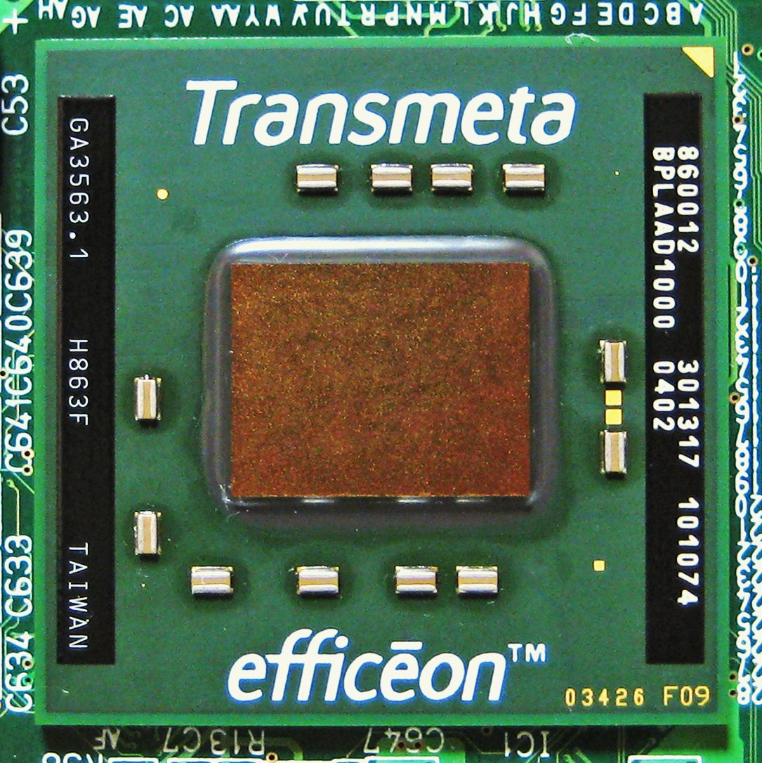 Transmeta Efficeon TM8600 1GHz.